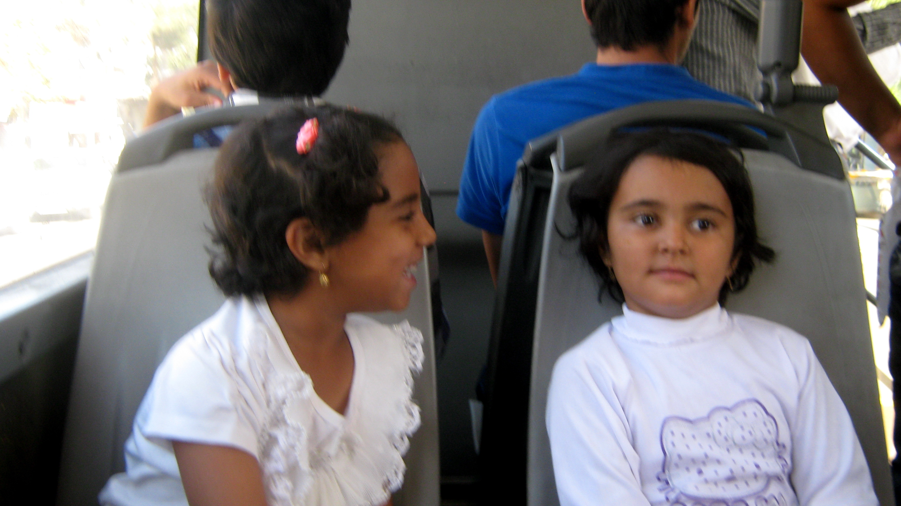 Happy girl sited on chair - morning - Nishapur